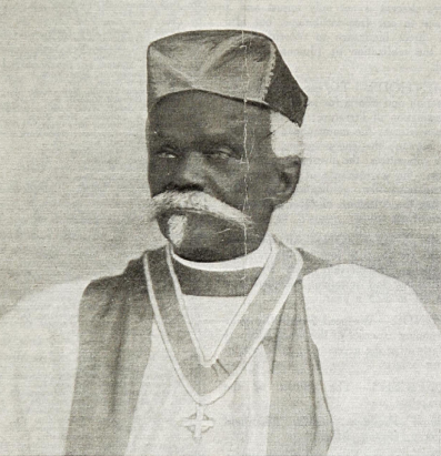 Portrait of James Theodore Holly.